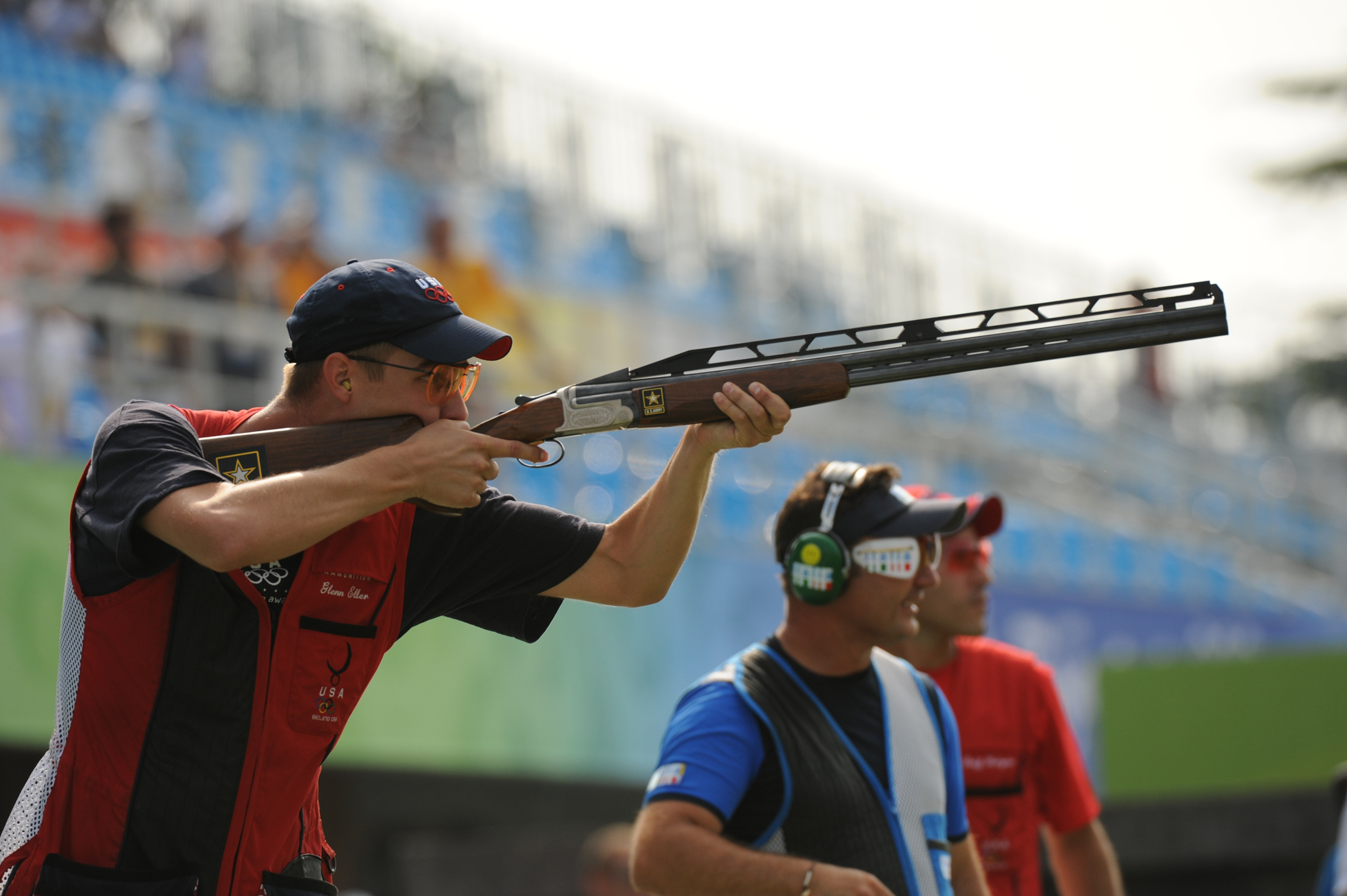 U.S. Army Spc. Walton Glenn Eller III takes his final shot to secure a gold medal with an Olympic record score of 190 in the double trap event at the 2008 Olympic Games in Beijing, China, on Aug. 12, 2008. Eller is with the U.S. Army Marksmanship Unit.